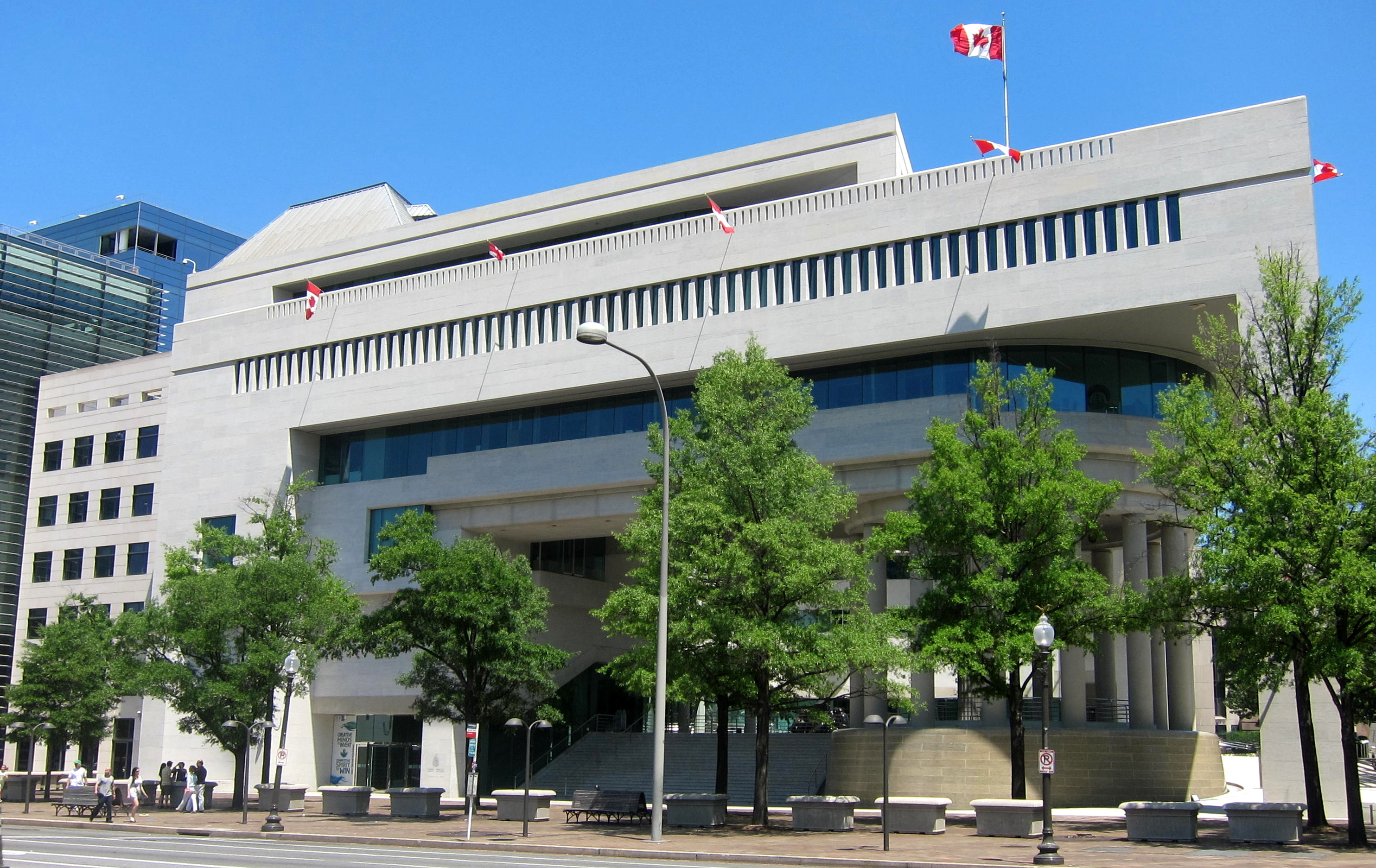 The Embassy of Canada located at 501 Pennsylvania Avenue, N.W., in the Penn Quarter neighborhood of Washington, D.C.